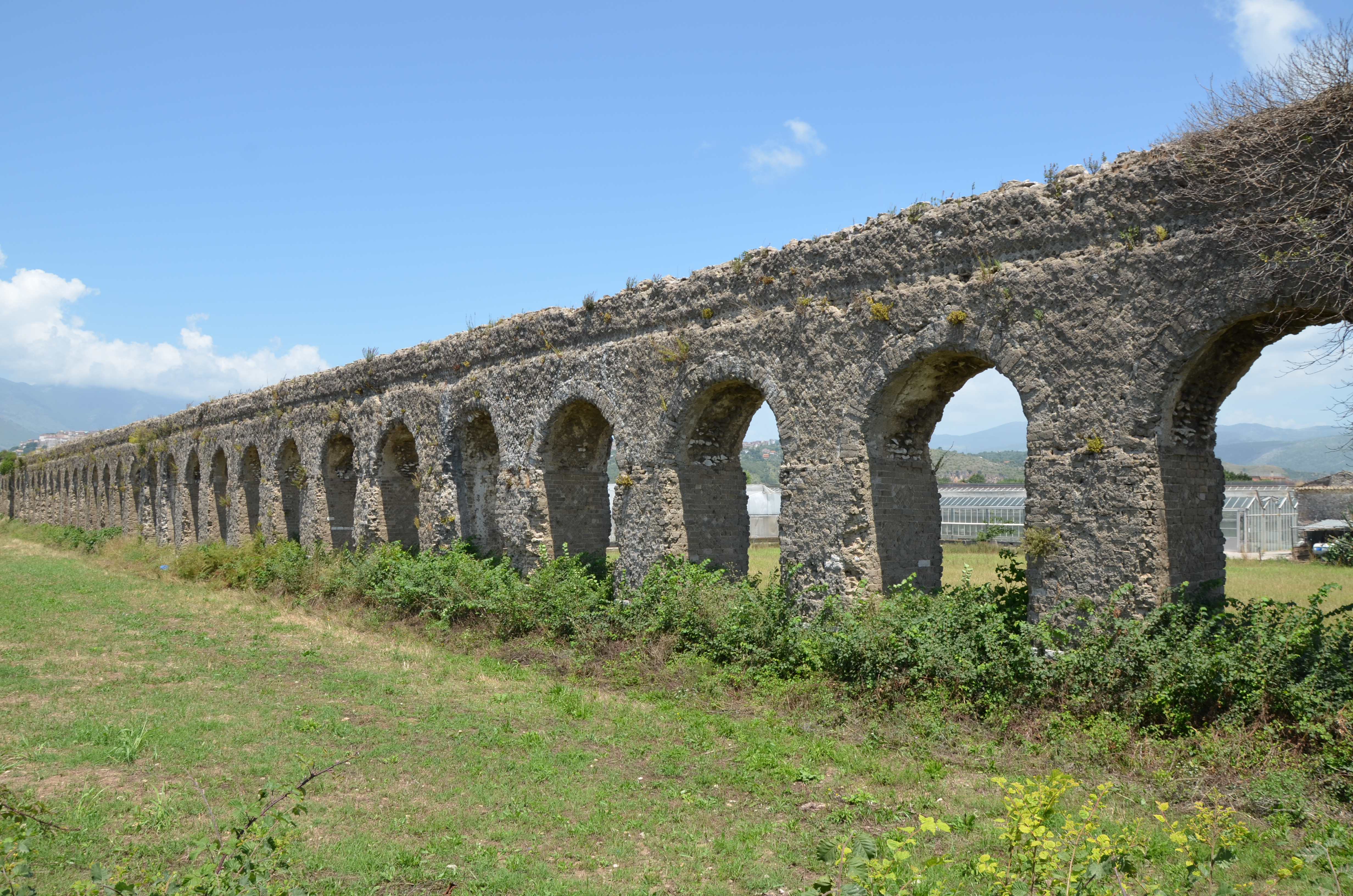 Aqueduct near Minturnae, built between the end of the Republic and the beginning of the Empire, Minturno, Italy